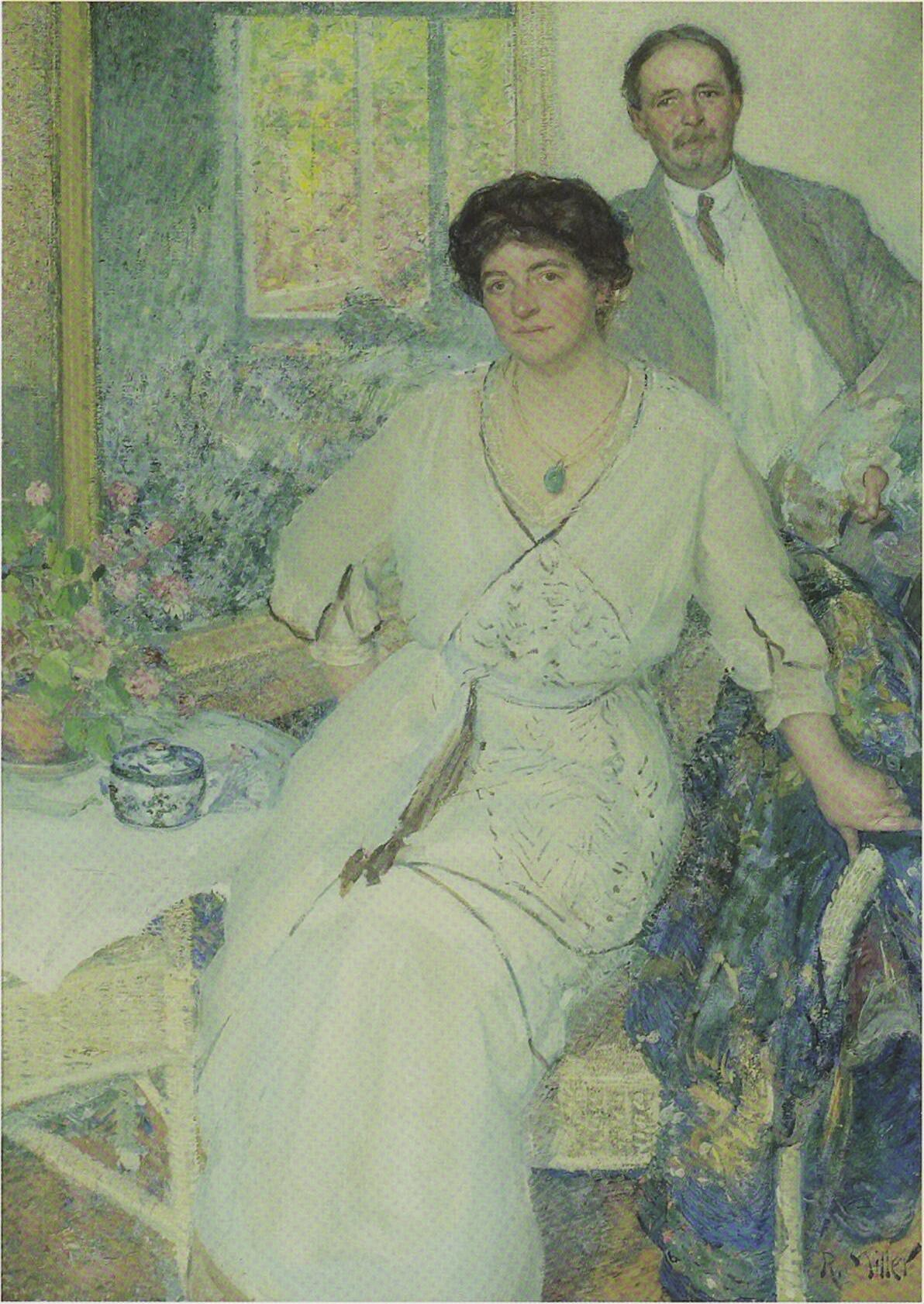 Dubbelportret van Anna Spencer Singer Brugh (1873-1962) en William Henry Singer (1868-1943)